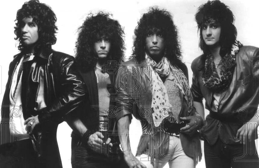 Promotional photo of rock band Kiss in 1984.